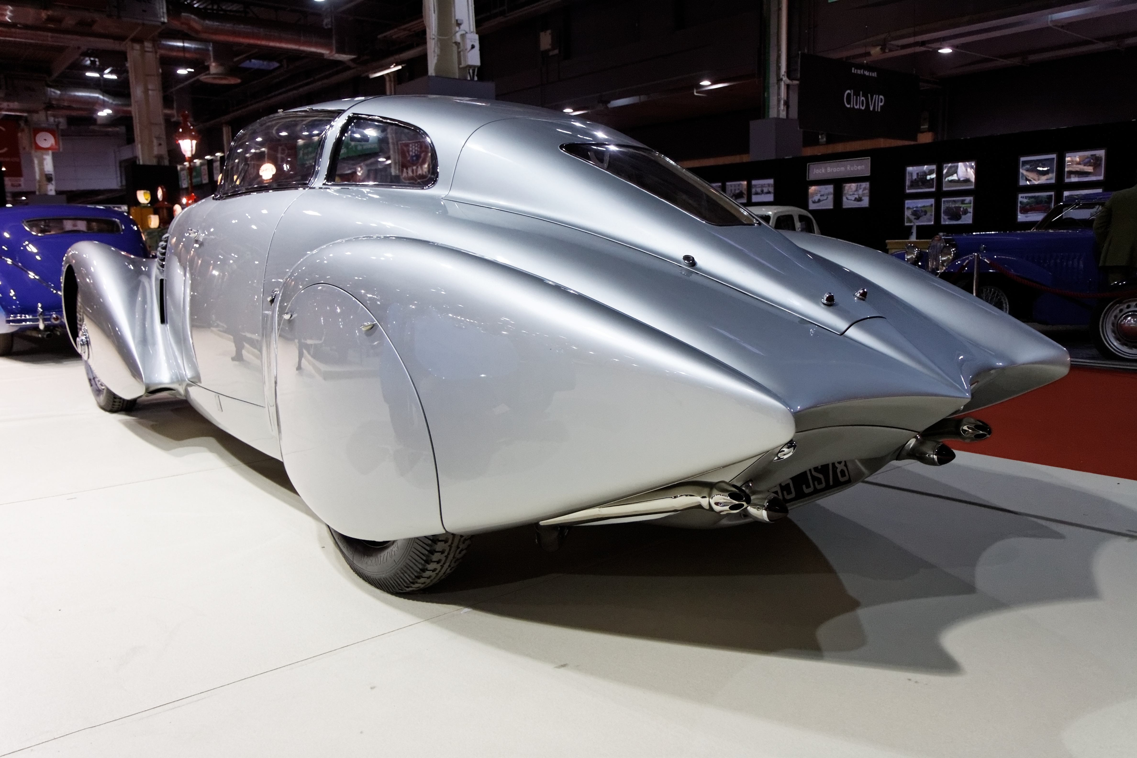 Hispano-Suiza type H6 C